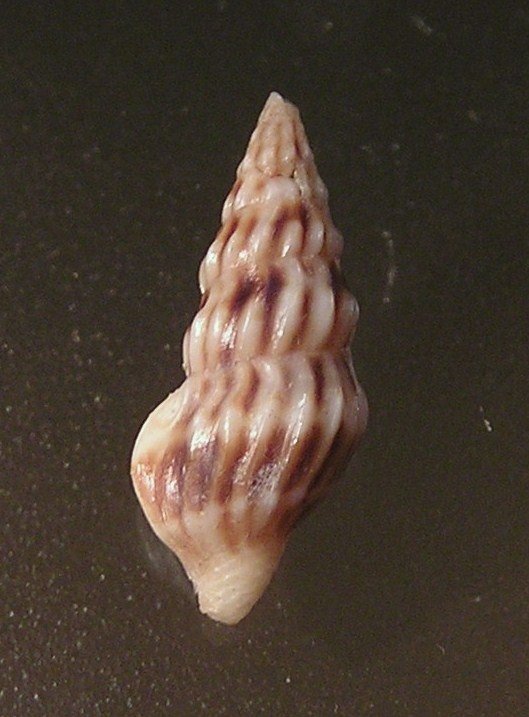 Iredalea inclinata (Sowerby III, 1893), a sea snail from the family Drilliidae; South Africa Category:Drilliidae